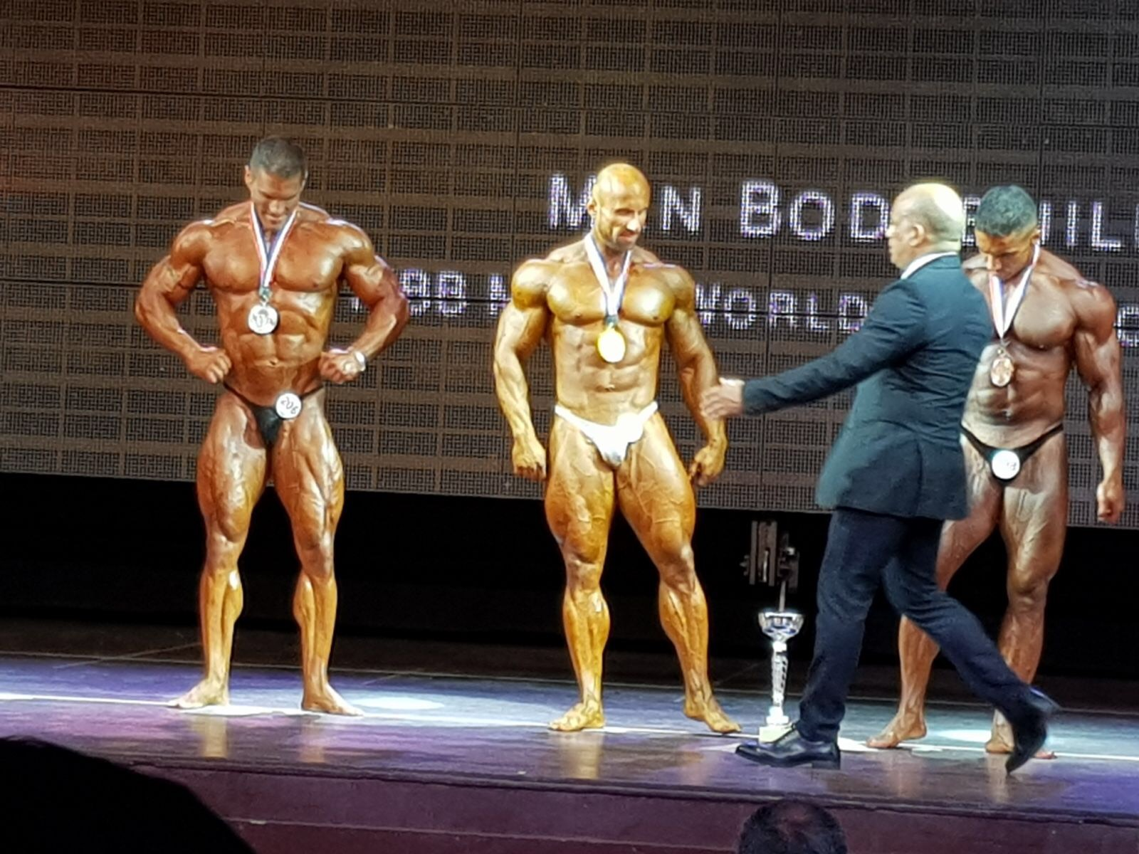 Subcampión do mundo. Culturismo. Carlos Blanco